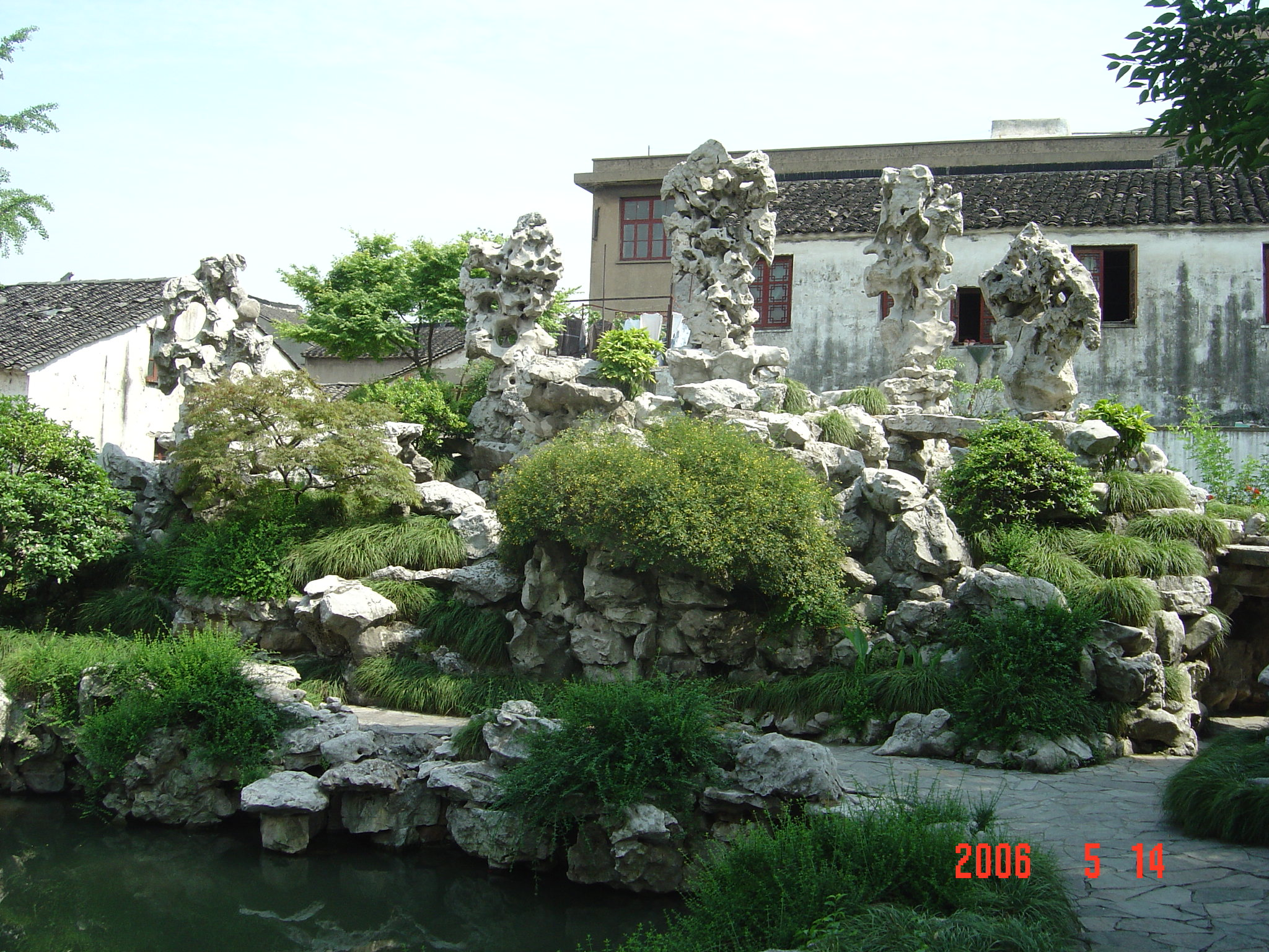 Taihu stone in Wufengyuan